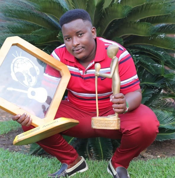 Burundian awarded artist Spoks Man in 2015